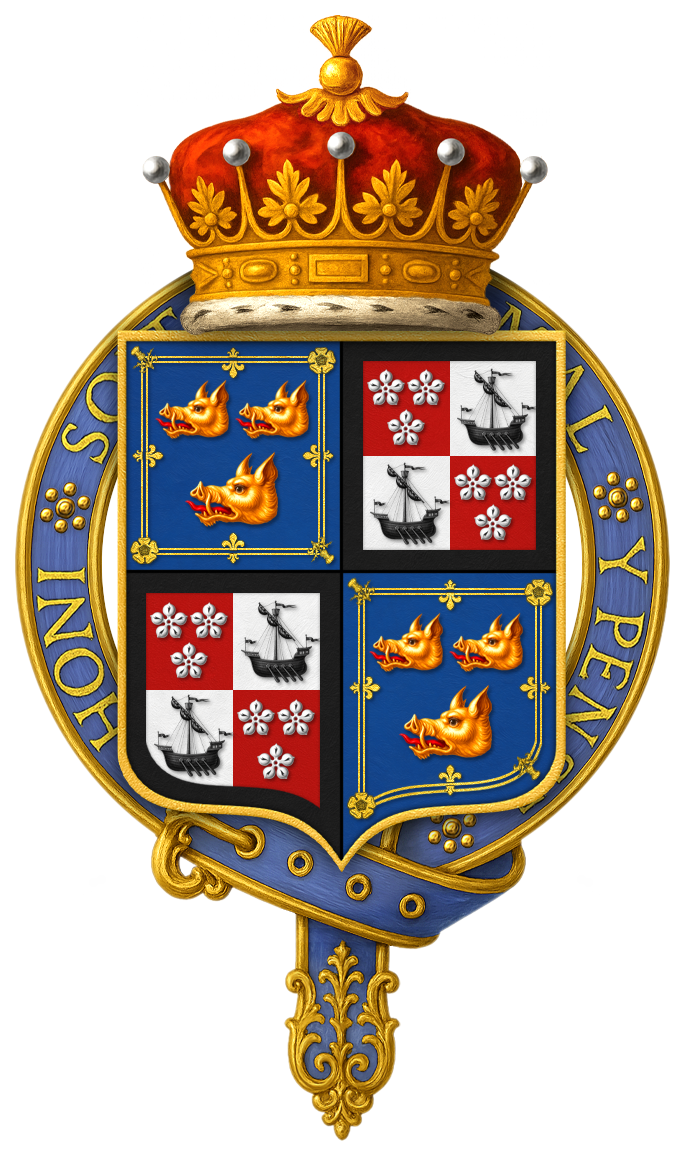 Shield of arms of George Hamilton-Gordon, 4th Earl of Aberdeen, as displayed on his Order of the Garter stall plate in St. George's Chapel.